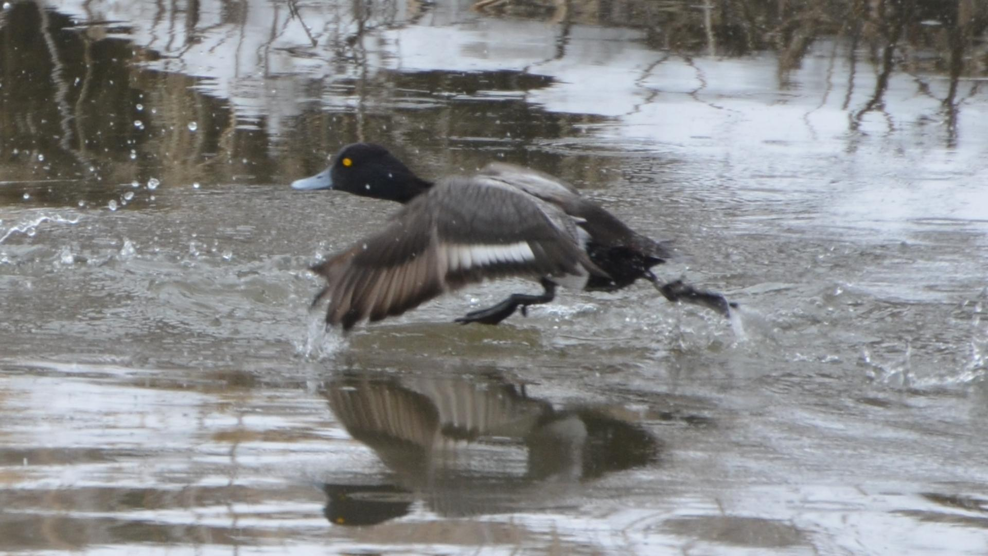 Ted Shanks CA in Missouri on 3/3/13